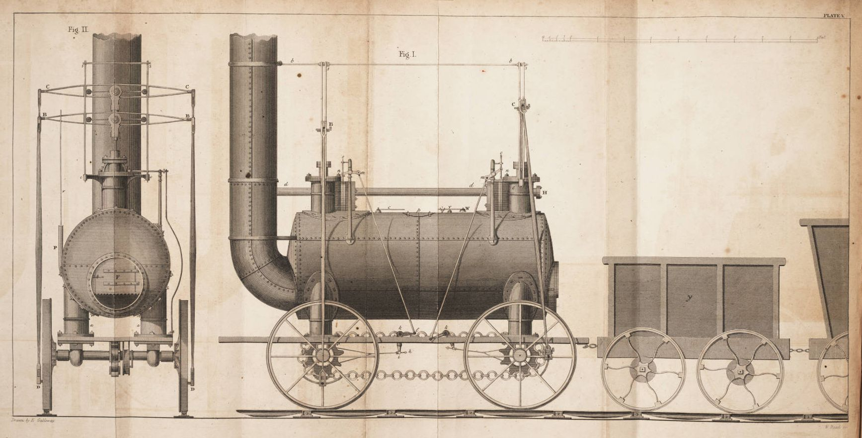 Locomotive designed by George Stephenson